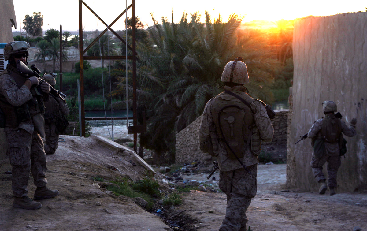 Original Caption: As the sun begins to set in western Al Anbar Province, Iraq, U.S. Marines from the Hawaii-based Kilo Company, 3rd Battalion, 3rd Marine Regiment patrol through back alleys in Haqlaniyah, Iraq, June, 1, 2006. The Marines were searching for insurgents and contraband in the city of 30,000, which is nestled along the Euphrates River northwest of Baghdad. Marines and Iraqi soldiers frequently patrol Haqlaniyah, where arguably some of the fiercest violence by insurgents against Coalition Forces occurs. Since their arrival more than two months ago, the Marines have engaged insurgents frequently. Most recently, the Marines fought insurgents hiding in an abandoned hotel, which was later bombed by U.S. military aircraft.